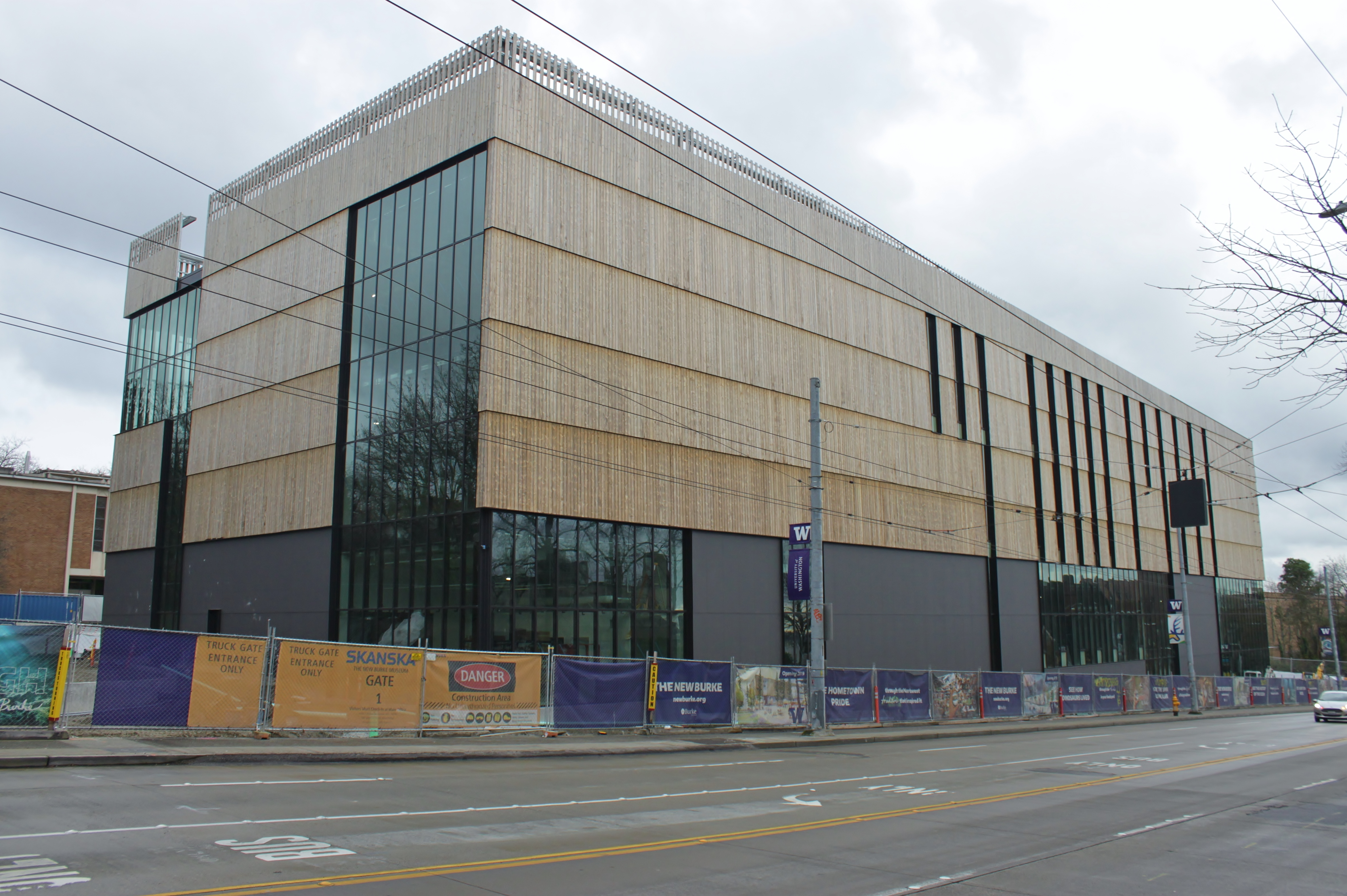 The new Burke Museum on the campus of the University of Washington, seen under construction from 15th Avenue NE.